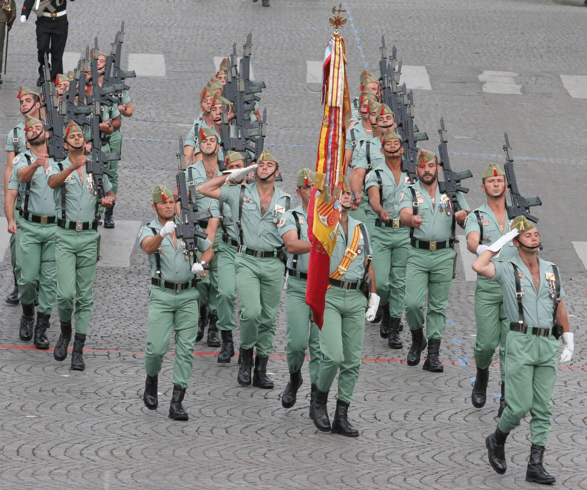 A detachment of the 7th Battalion, 3rd Regiment "Don Juan of Austria" of the Spanish Army's Spanish Legion, marching in the 2007 Bastille Day military parade on the Champs Élysées in Paris.